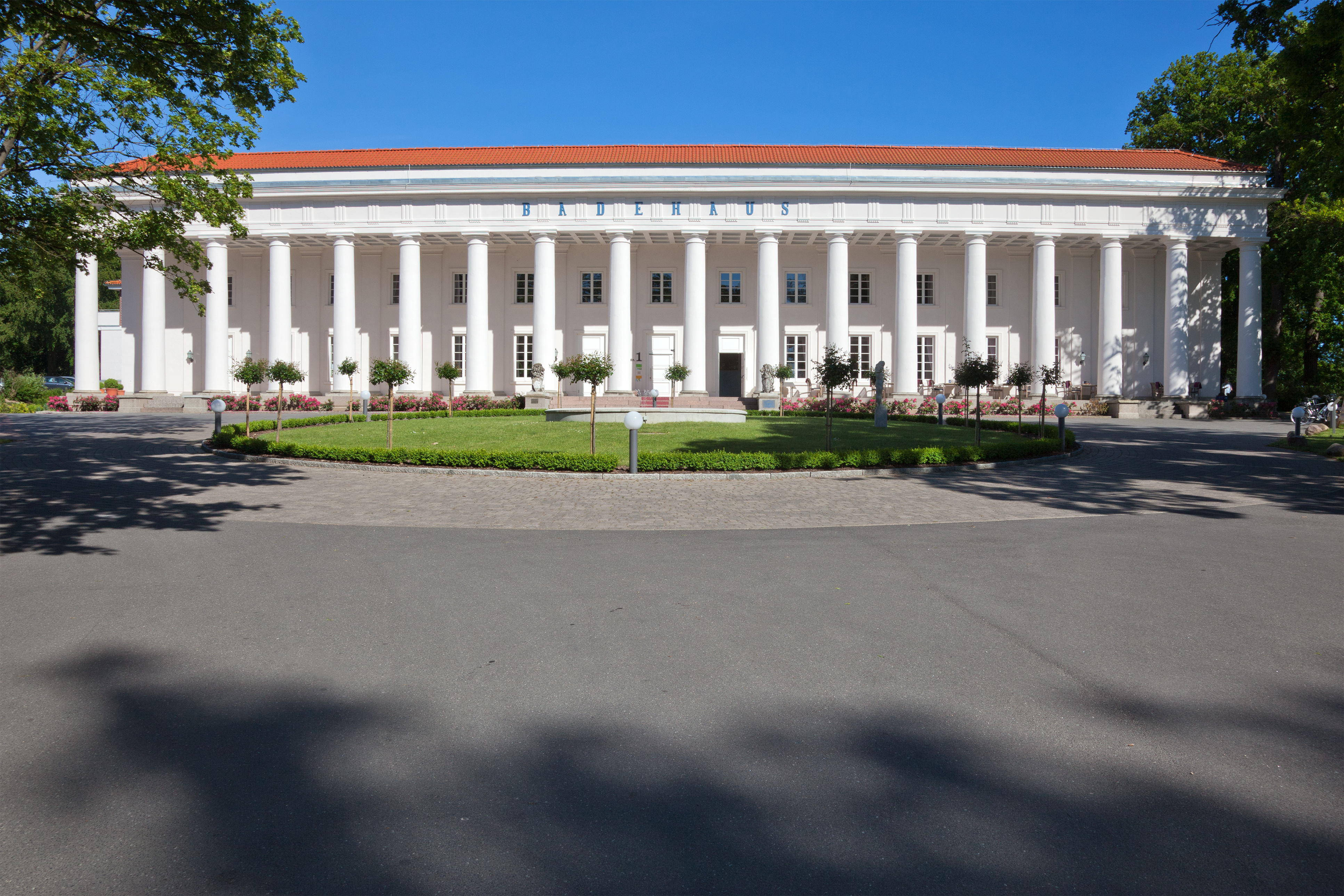 Putbus, Badehaus Goor (public bath, now hotel)